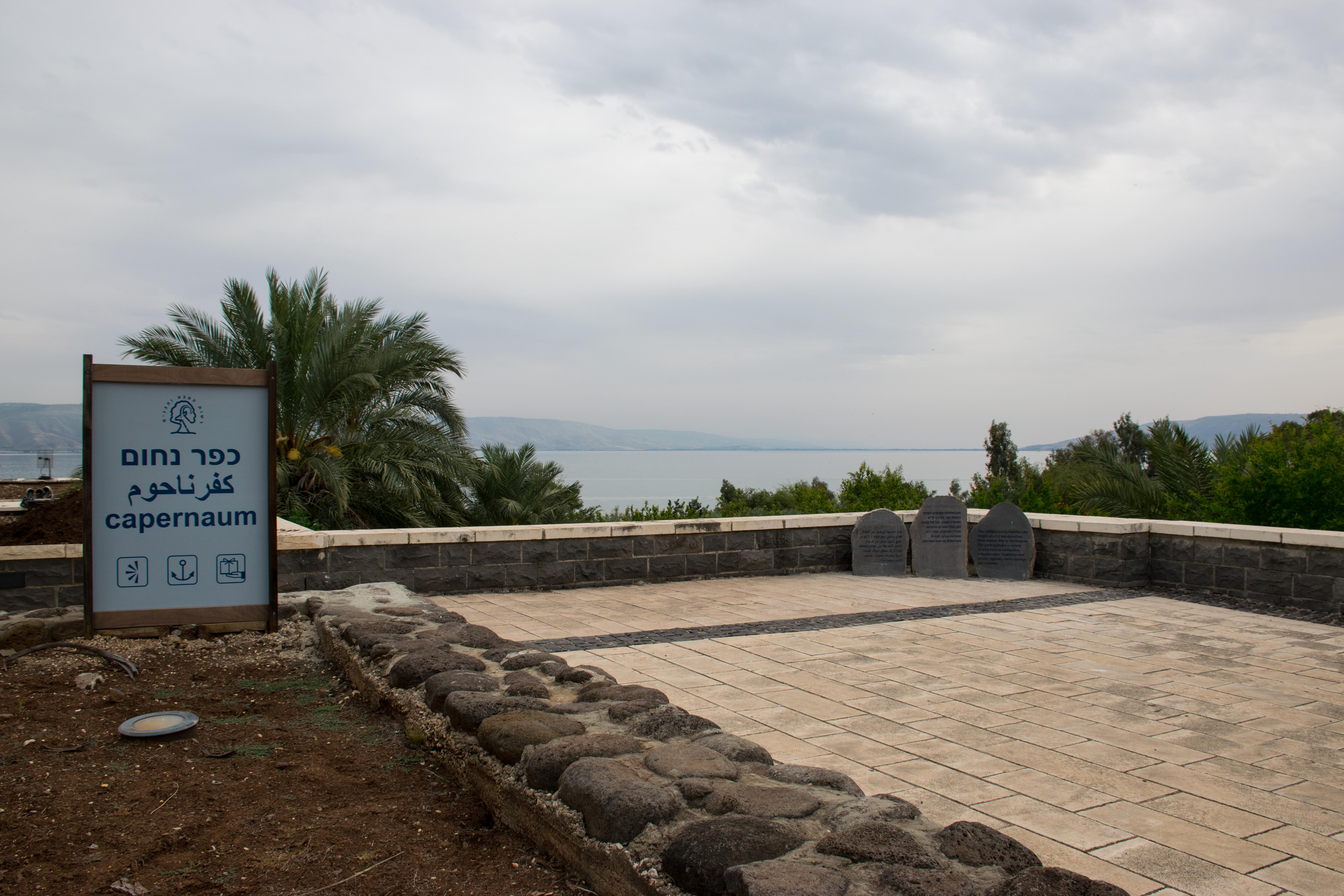 Capernaum harbor